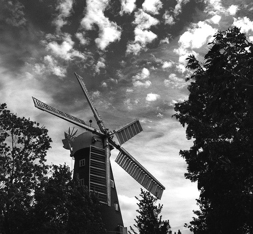 Picture of Alford Windmill taken on 14 September, 2005. Taken by Nick Fraser 17:20, 21 January 2006 (UTC).